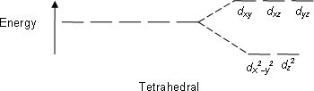 Tetrahedral CFT splitting